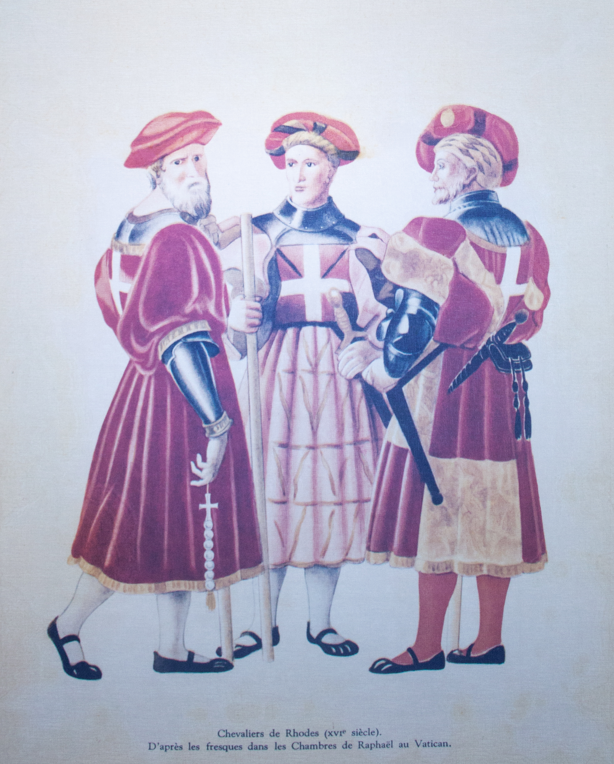 Drawing of people belonging to the Order of Saint John of Jerusalem from the end of the 18th century